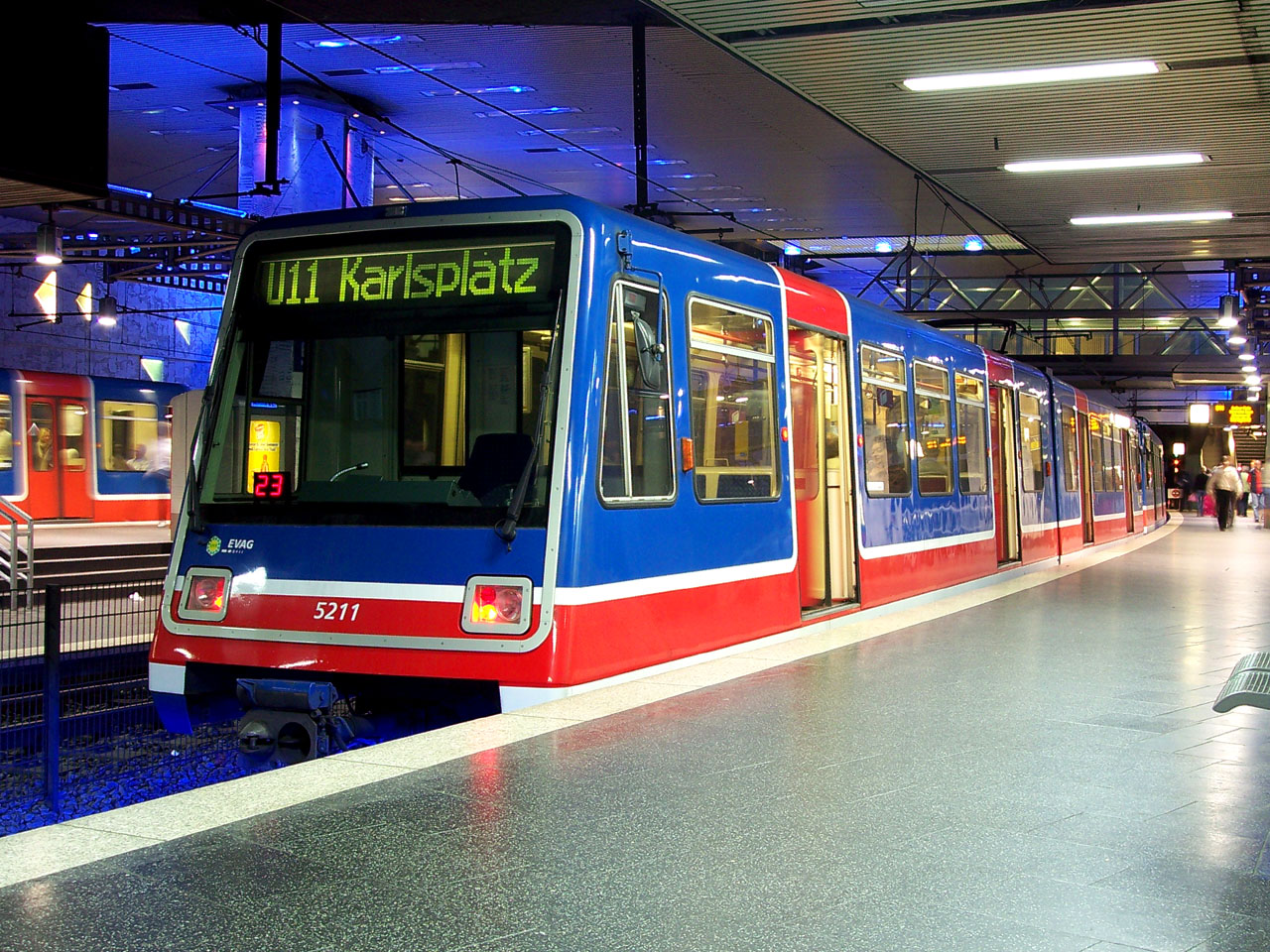 EVAG of Essen, Germany ex-Docklands Light Railway P86 number 5211 at Essen Hauptbahnhof with a U11 service to Karlsplatz.